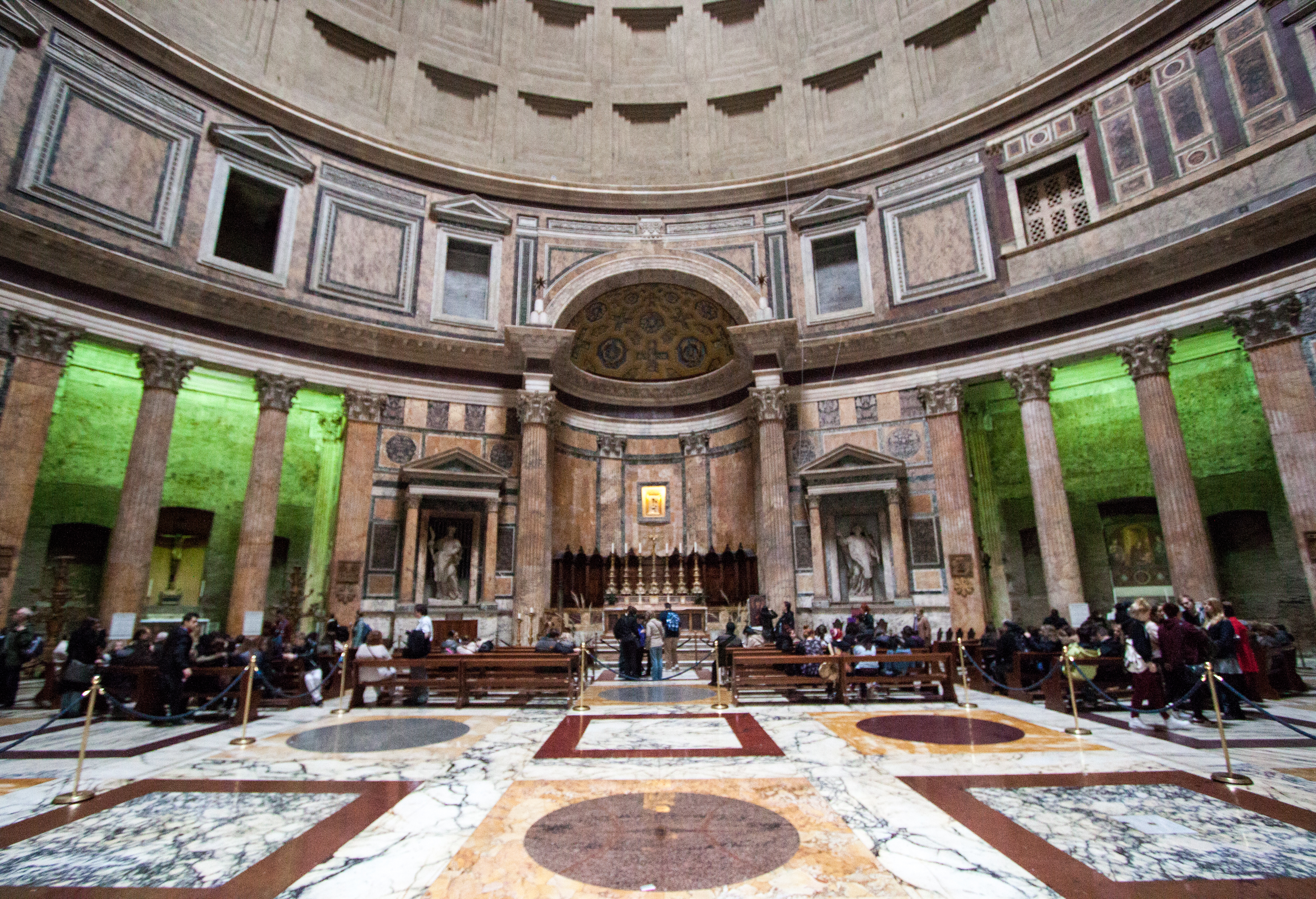 Pantheon, internal viewlabel QS:Len,"Pantheon, internal view" label QS:Lhu,"A római Pantheon, belső kép"